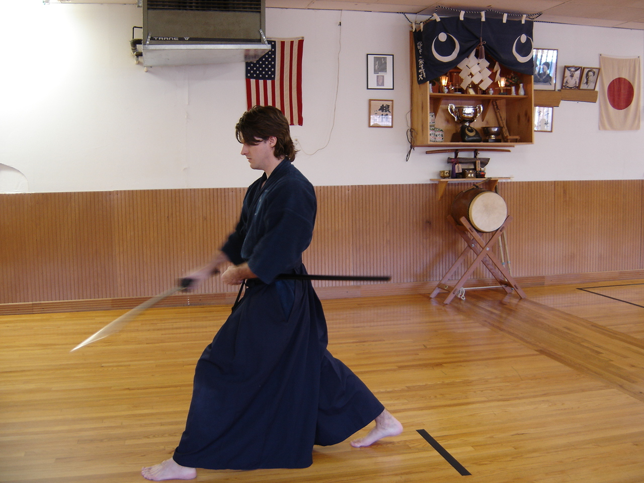 ZNKR Iaido practitioner performing kata